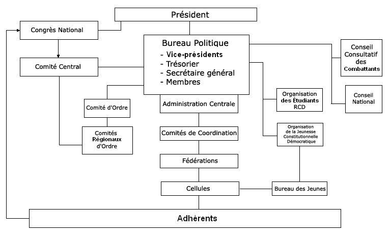 Constitutional Democratic Rally organizational chart (Tunisian political party)